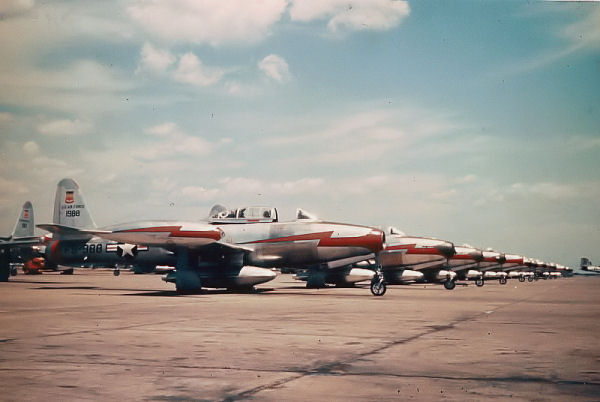 F-84Gs of the 77th Tactical Fighter Squadron/20th Tactical Fighter Wing at RAF Wethersfeld, UK - Early 1950s Source: United States Air Force Historical Research Agency, Maxwell AFB Alabama